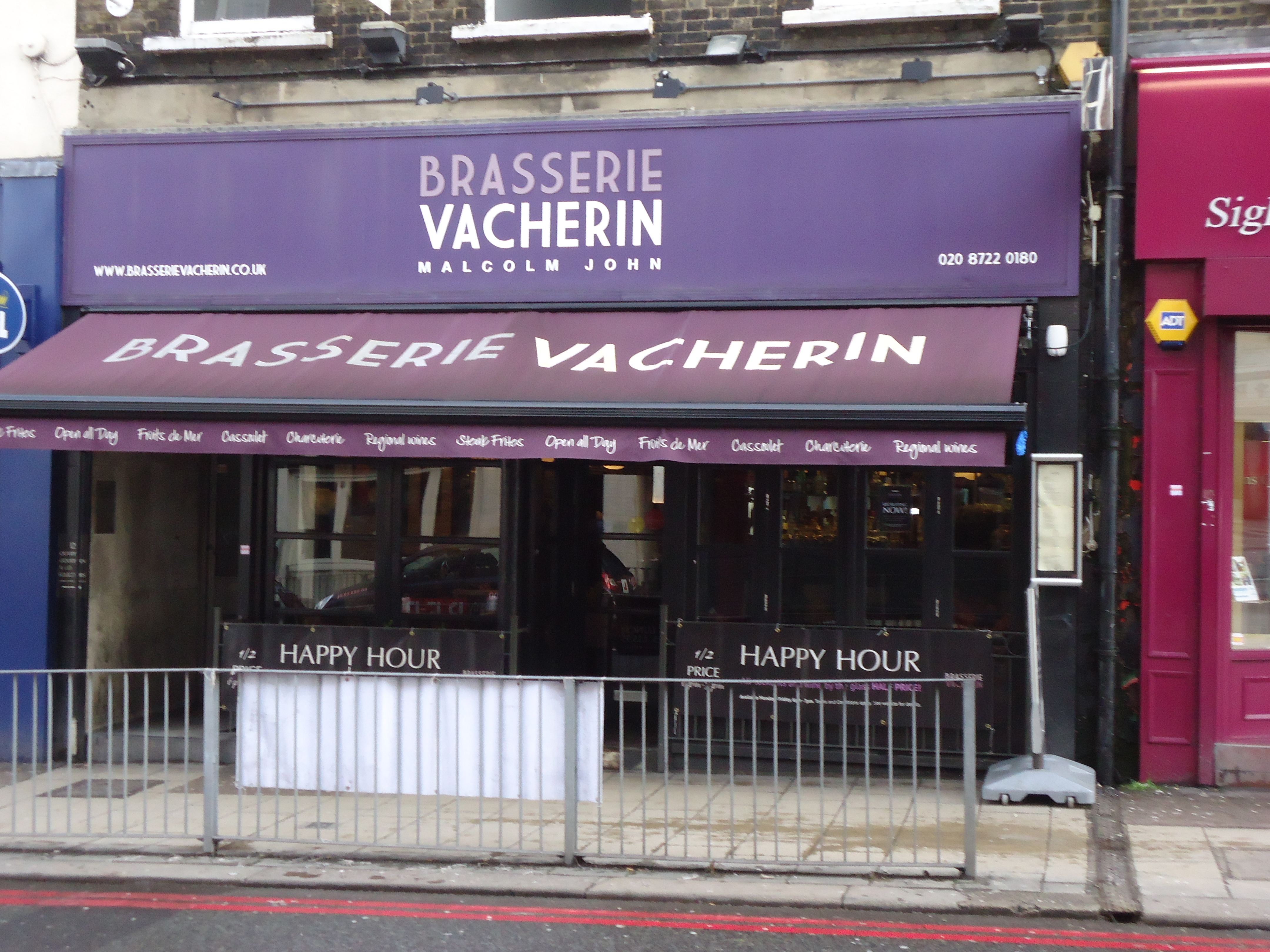 Photo taken of a French restaurant run by aclaimed chef Malcolm John. It is situated near Sutton railway station in High Street Sutton, London, a town within Greater London on the edge of Surrey. The restaurant is listed in the Good Food Guide and the Michelin Guide.